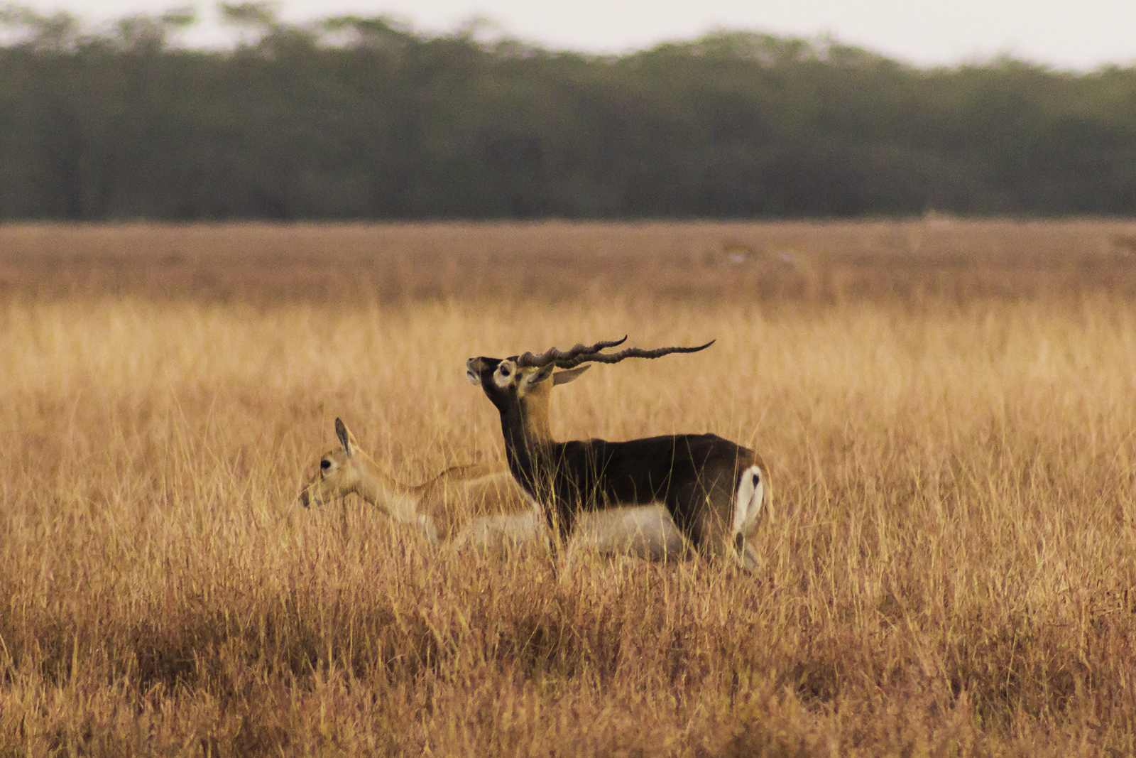 Courtship display in Blackbucks